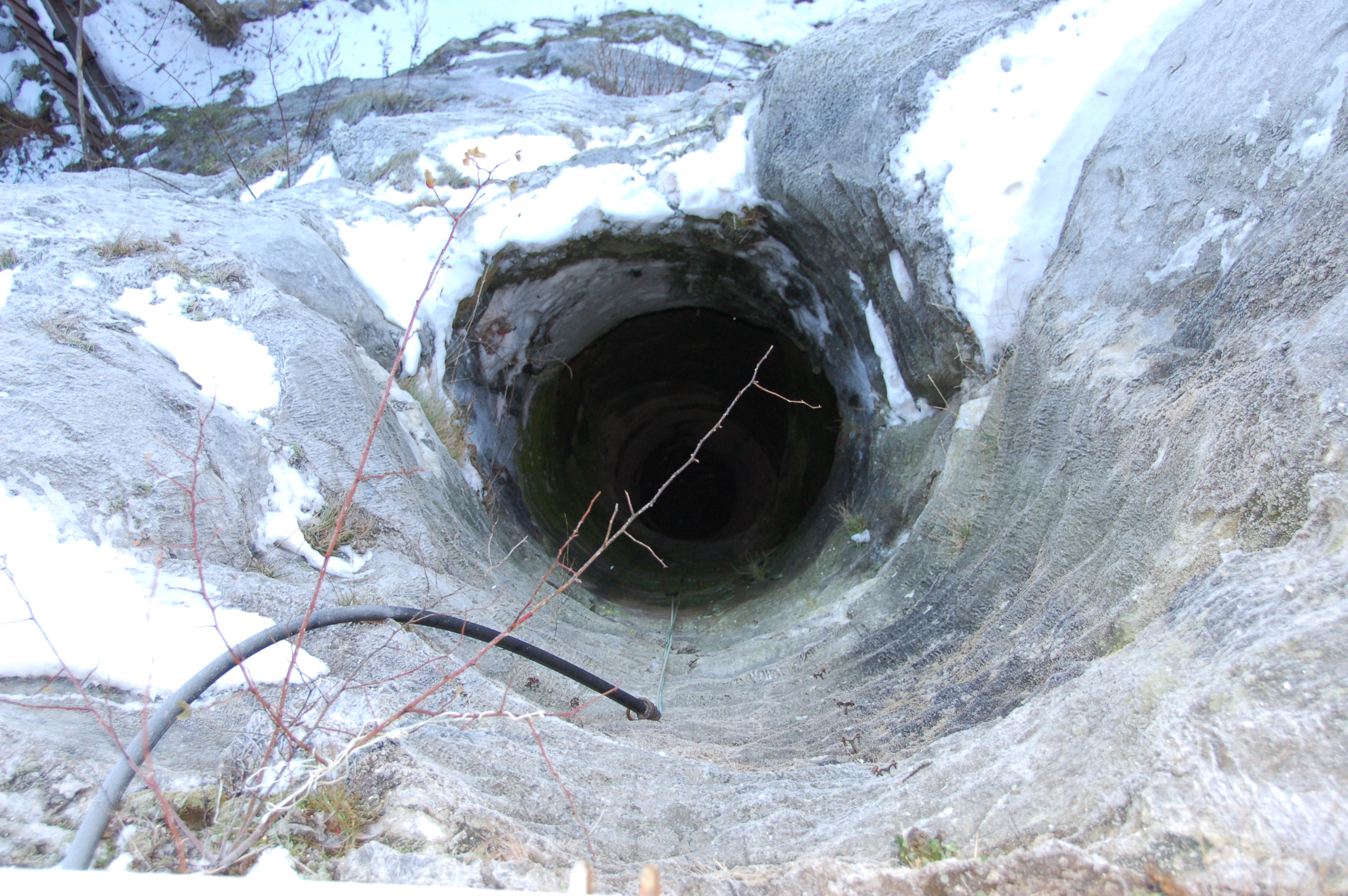 About 43 meters deep standpipe of the Siegesburg on the Kalkberg in Bad Segeberg